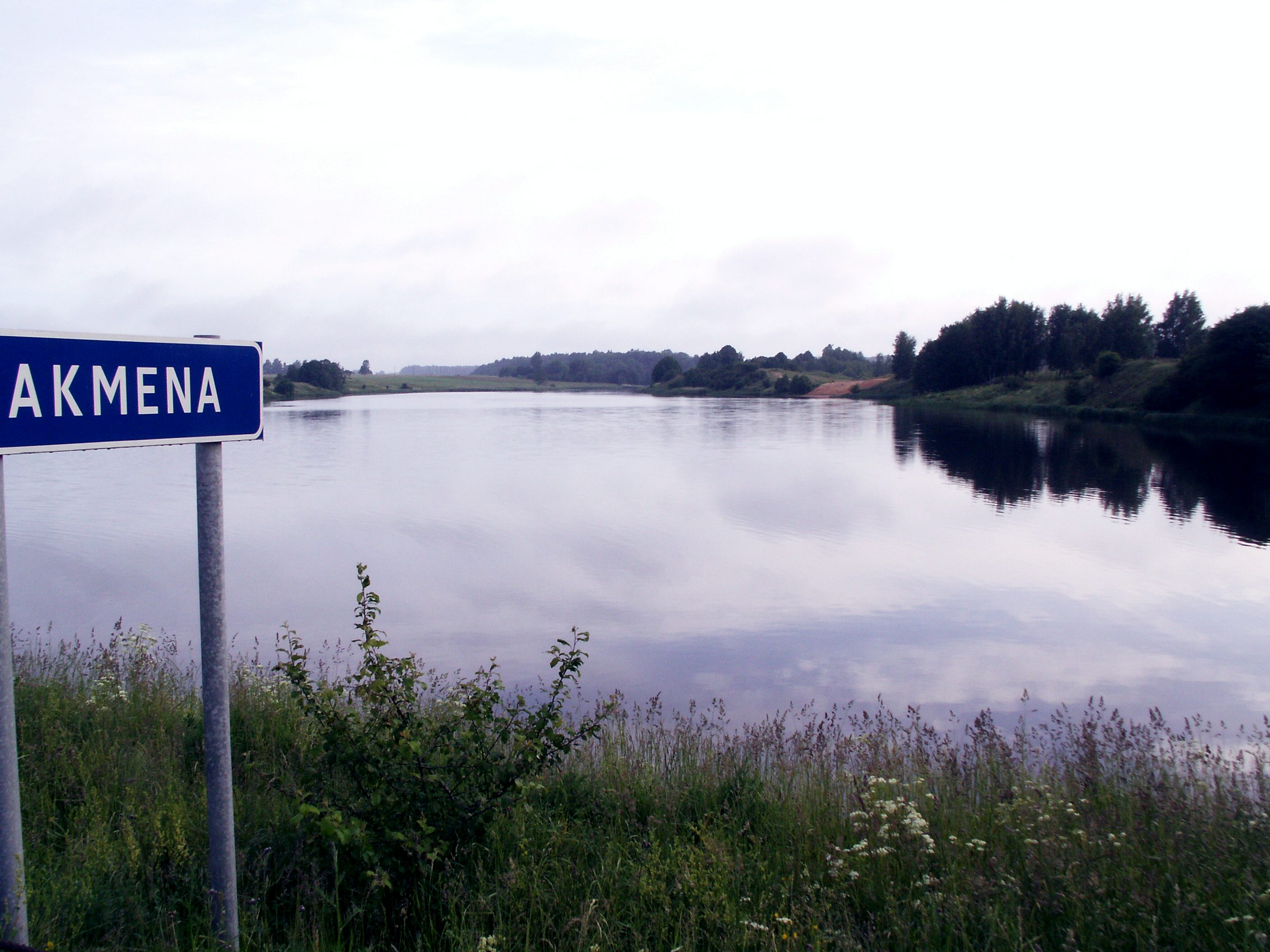 Akmena river near Kurmaičiai, Kretinga district, Lithuania